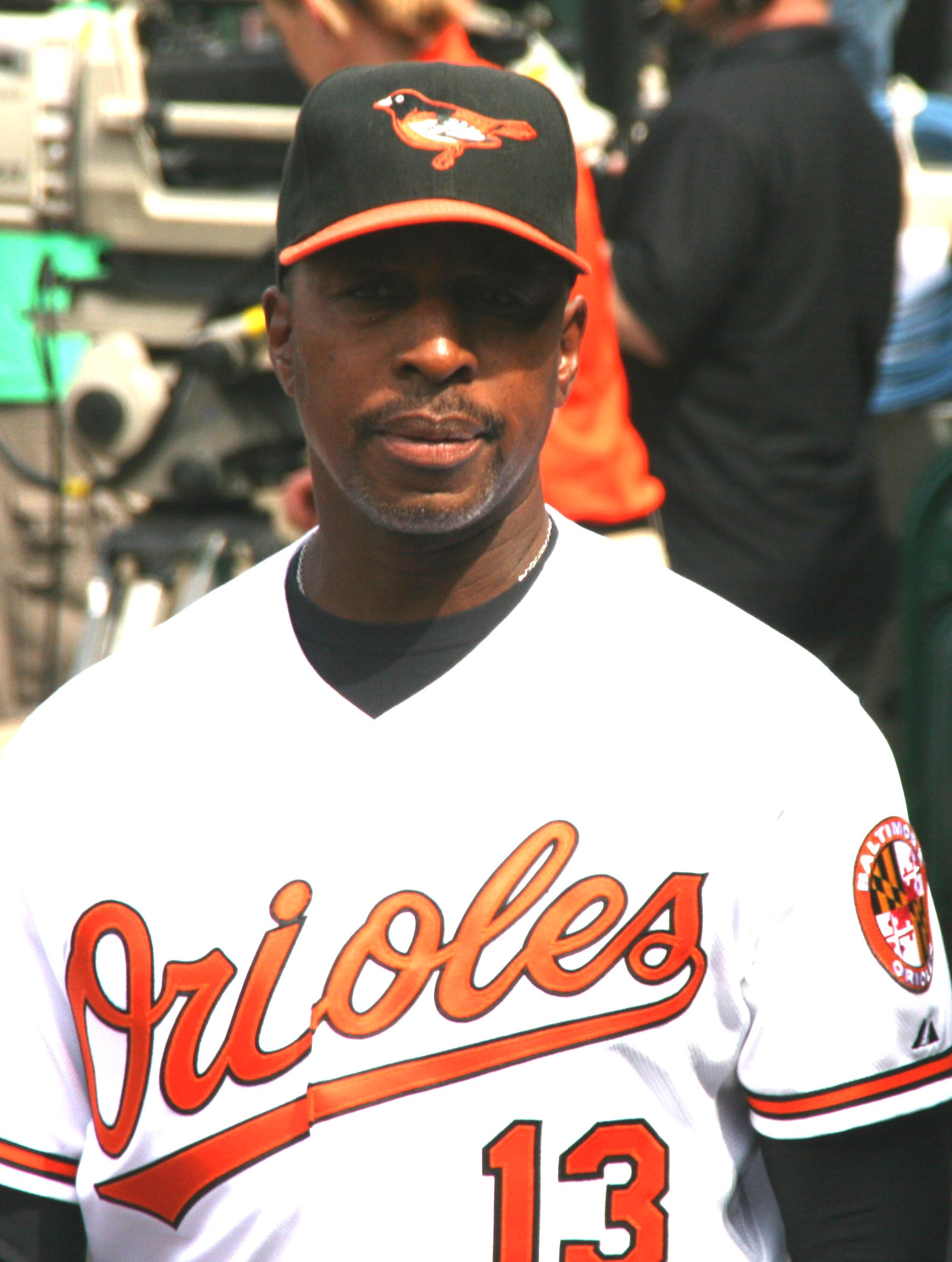 bench coach willie randolph